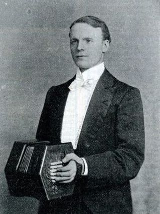 Portrait of concertina player Alexander Prince. Original caption: Alexander Prince, the "Prince" of Concertina Players, has made some fine Sterling Records for the Russell Hunting Record Co.